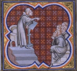 14th century picture of Amalric of Bena. He appears to be teaching people.